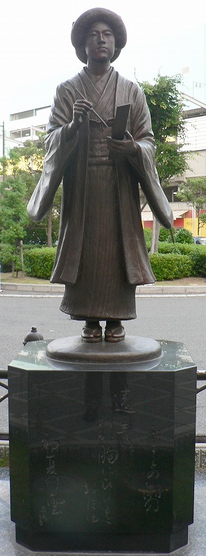 The bronze statue of Yosano Akiko at Sakai-station, Sakai city ,Osaka ,Japan（大阪府堺市の南海本線堺駅西口前にある与謝野晶子銅像）